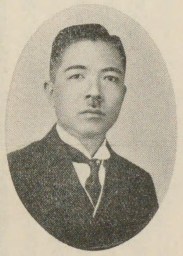 Kōzen Yoshino